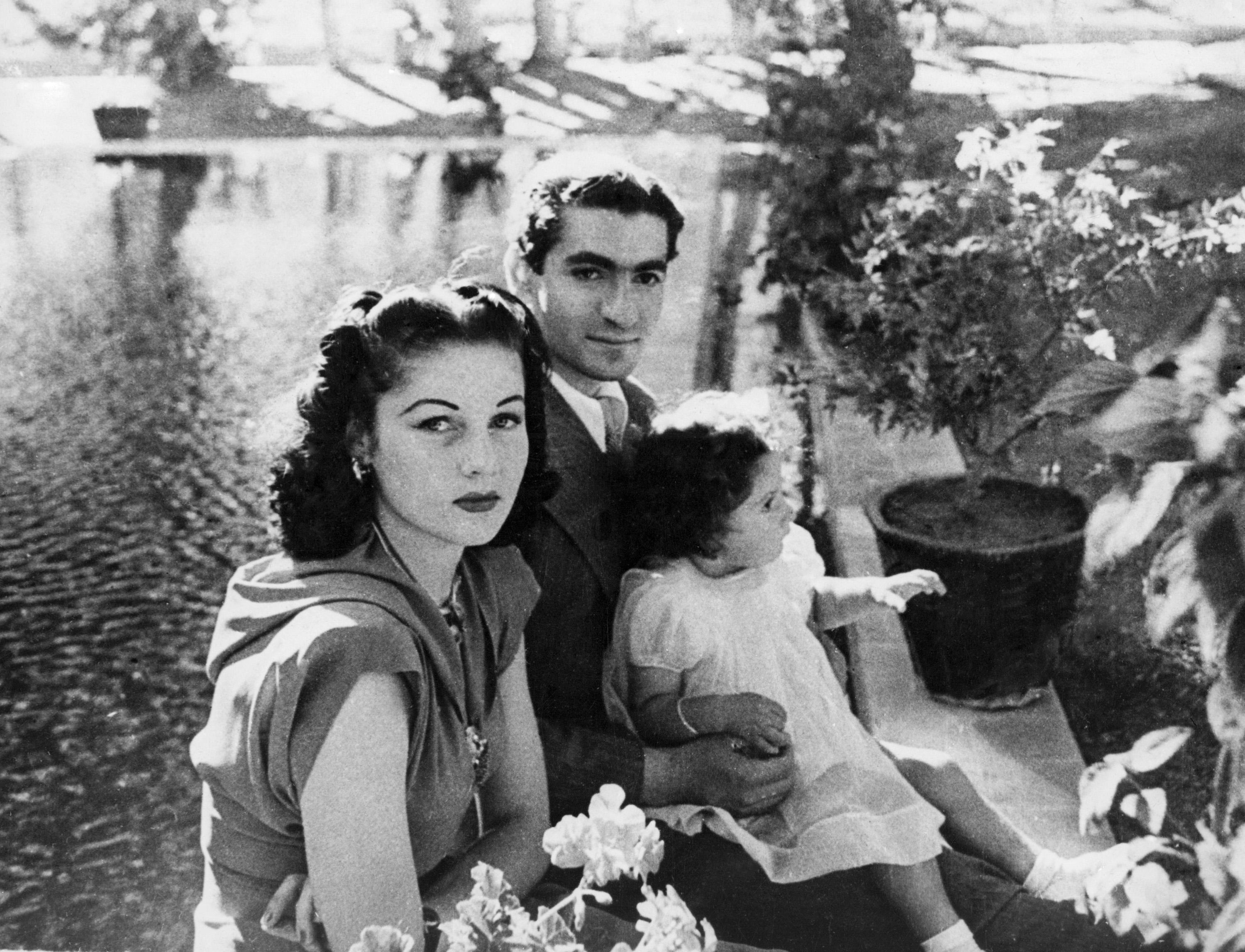 Political Personalities: Shah Mohammed Reza Pahlevi of Iran with his first wife, Queen Fawzieh, and their daughter, Princess Chahnaz seated by an ornamental pool in Teheran.